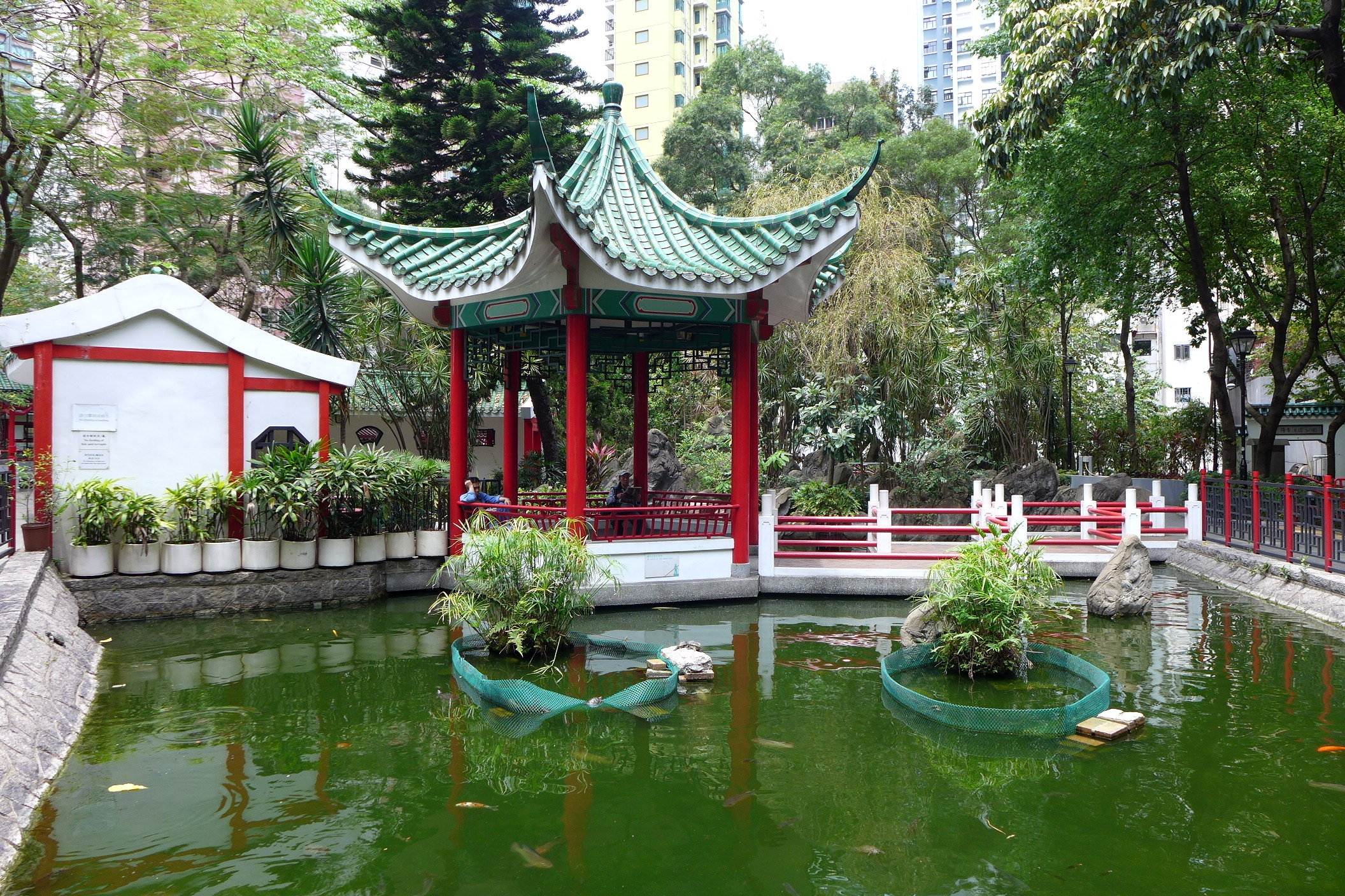 Hollywood Road Park